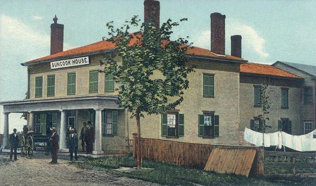 "Suncook House," Allenstown, Suncook, NH; from a c. 1907 postcard.